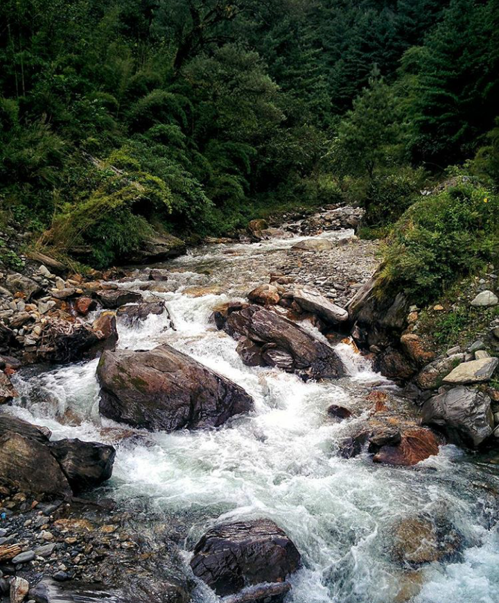 A small river on the way to Muktinath.